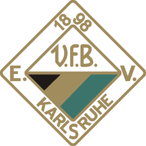 Historical logo of VfB Karlsruhe, German football team